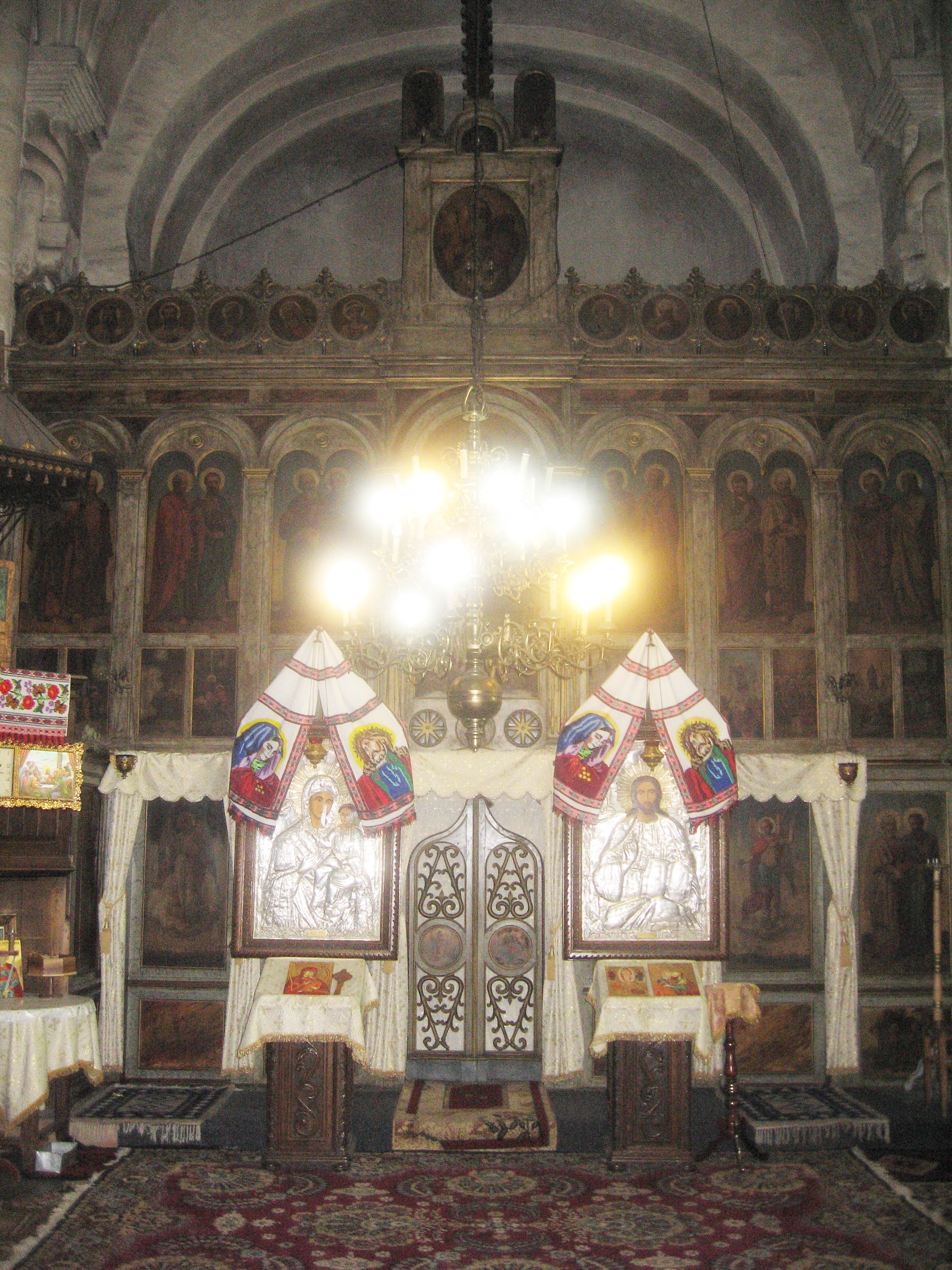 Biserica "Sf. Apostoli Petru și Pavel" din Solca